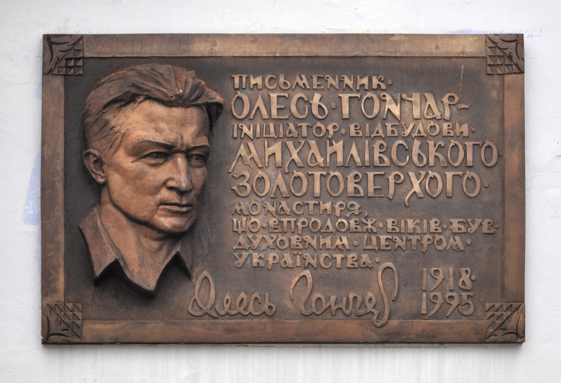 Plaque near St. Michael's Golden-Domed Monastery in Kiev